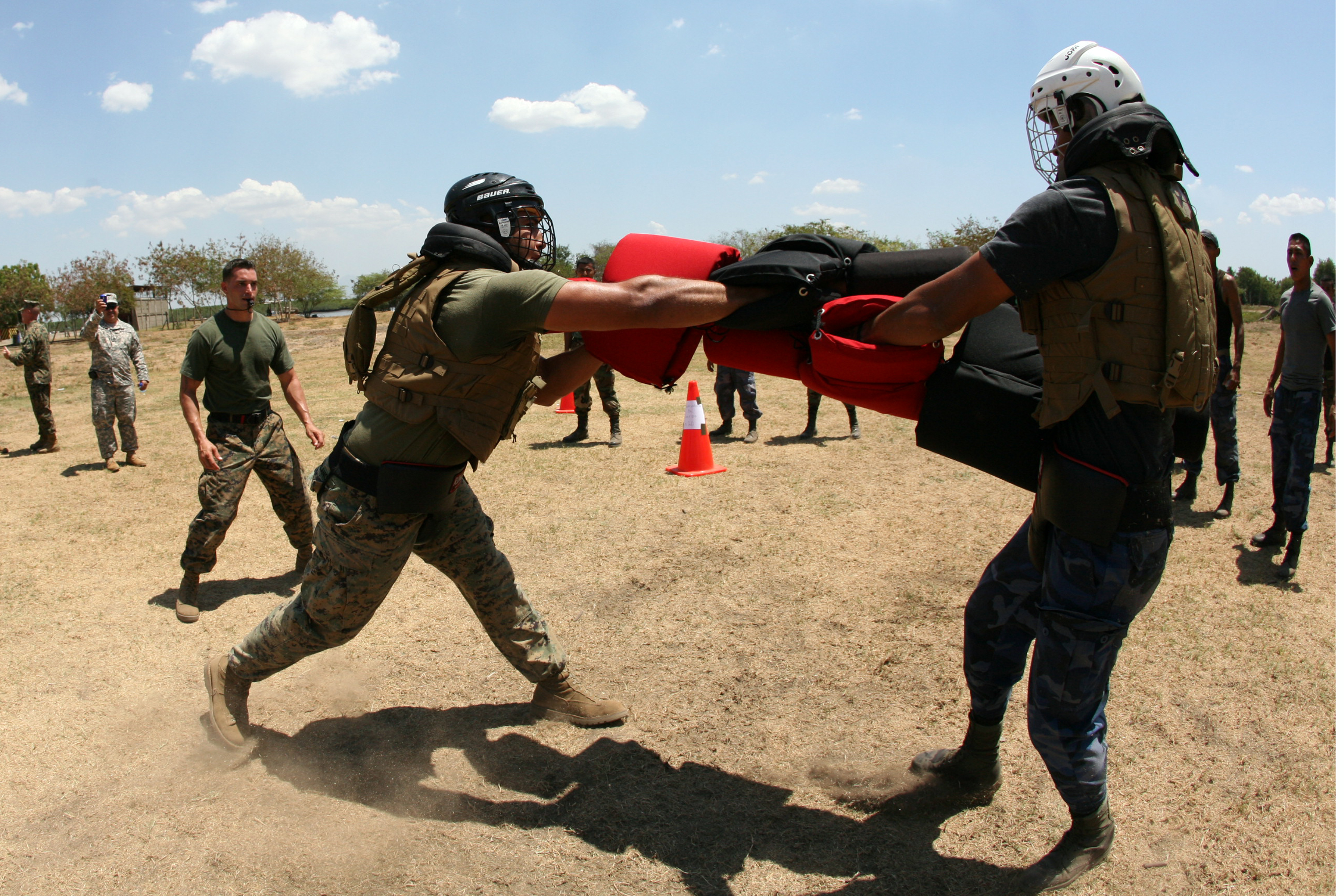 Captain Raul Melano, officer-in-charge of Marine Forces Southern Command security cooperation team and Teniente de Fragata (Lieutenant Junior Grade) Victor Bordas of the Ejercito de Nicaragua (National Army of Nicaragua) participate in a pugil stick match during a five-day multinational hand-to-hand combat skills exchange at the Corinto Naval Base, Nicaragua, March 24. The team of five Marines and one Sailor from Marine Corps Training and Advisory Group are deployed aboard high speed vessel 2 (HSV2) Swift in support of U.S. Southern Command’s Southern Partnership Station 2011, which is an annual deployment designed to strengthen cooperative partnerships across the Caribbean and Central and South America.